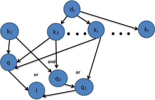 evidence_sources